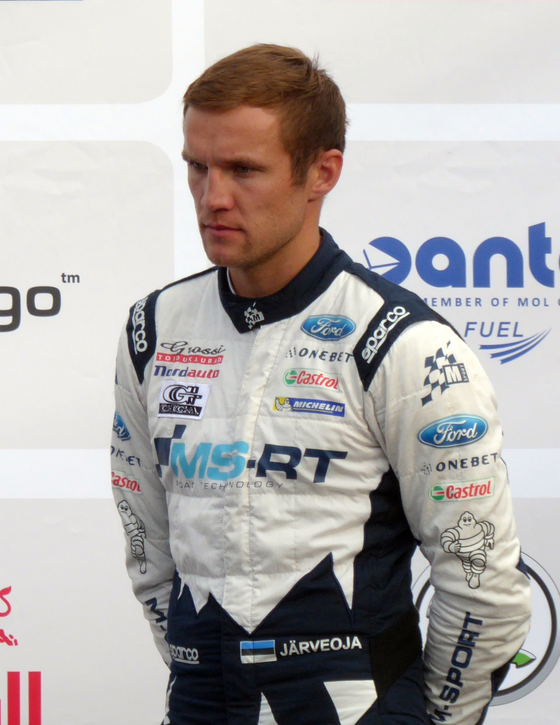 cropped version of File:Rallye Deutschland 2017 (Tänak-Järveoja-0777).jpg